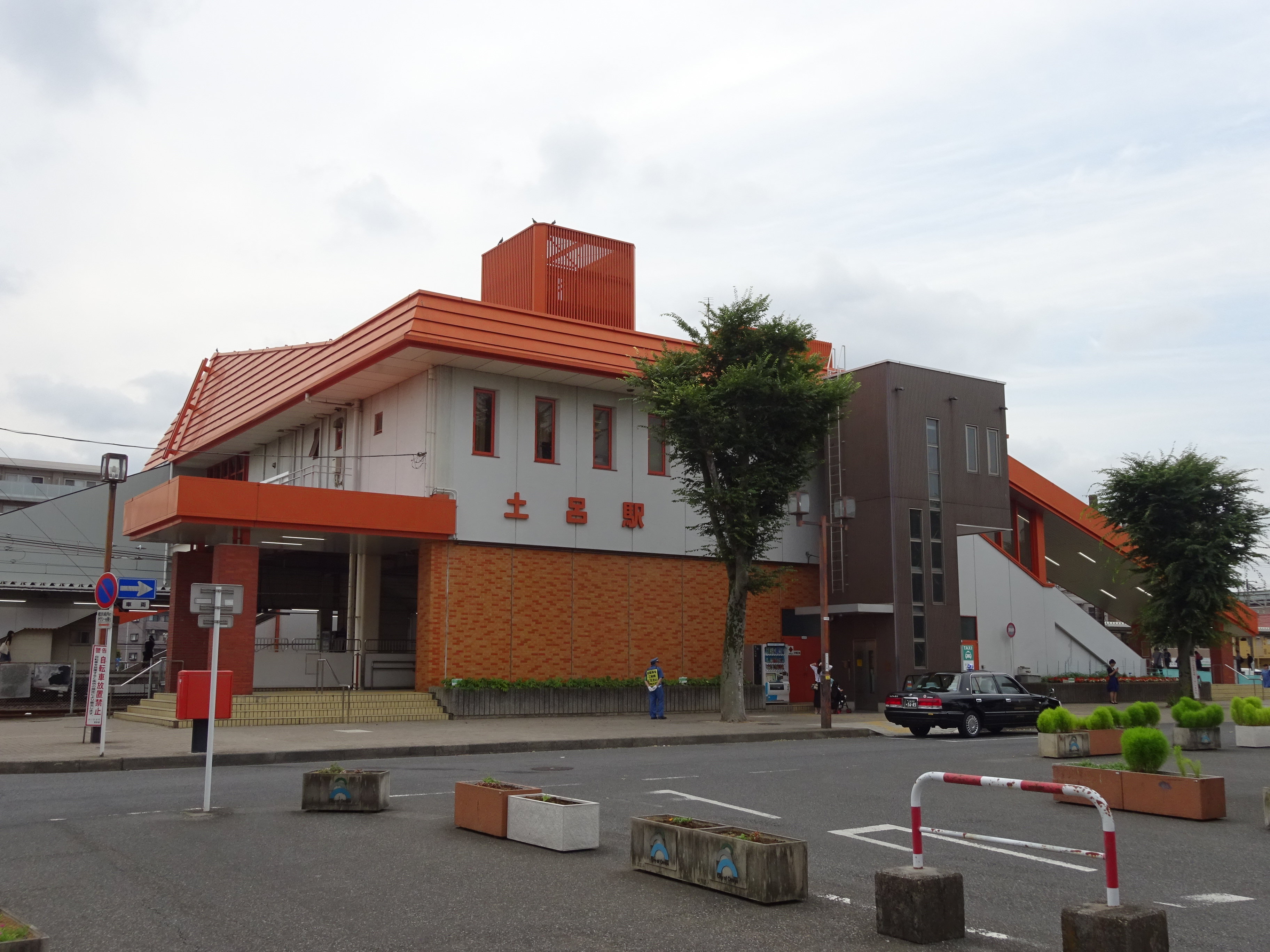 West entrance of Toro Station